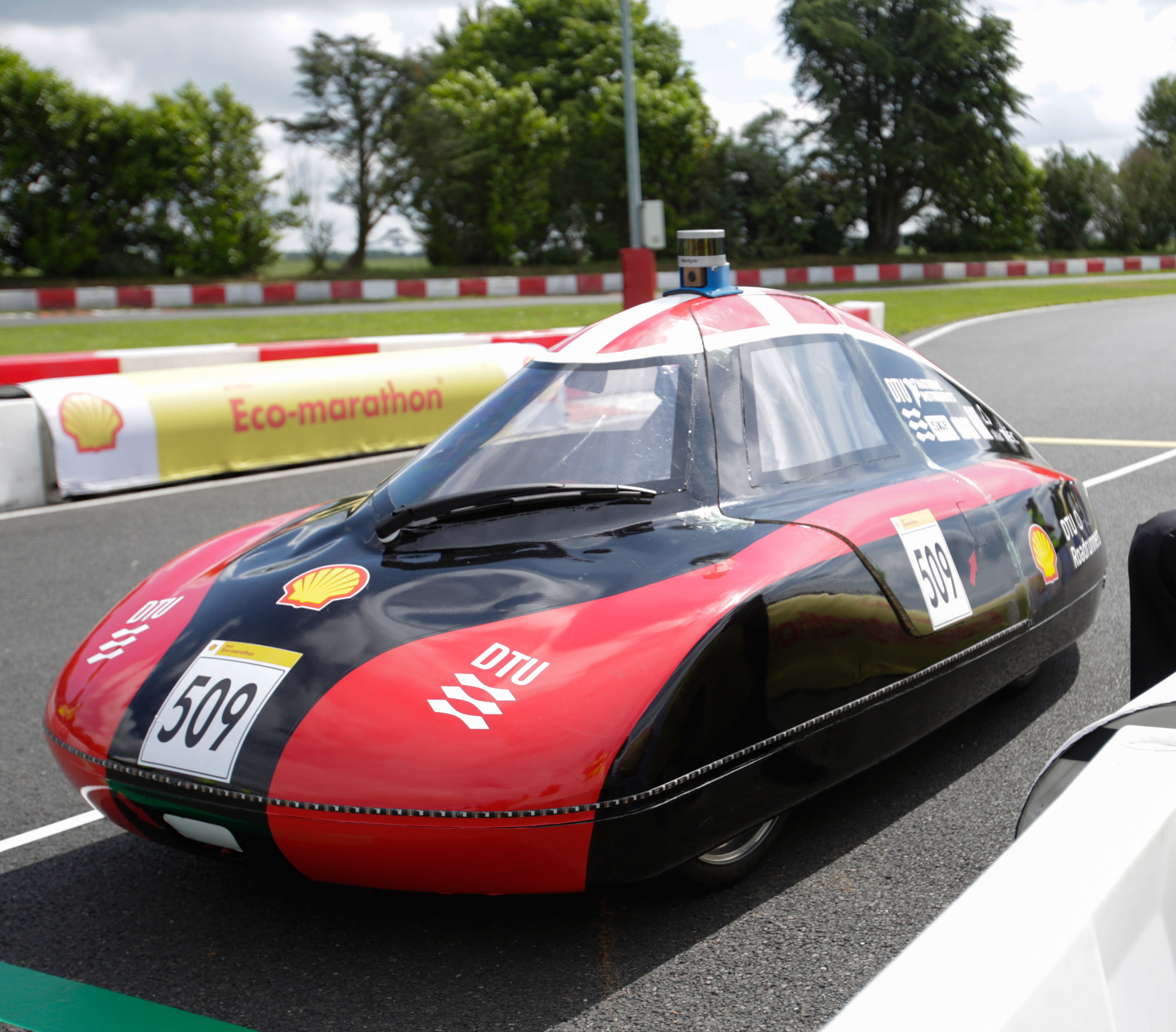 PARIS, FRANCE - MAY 31: Shell Eco-marathon Autonomous Qualification (photos Nathalie Bauer)